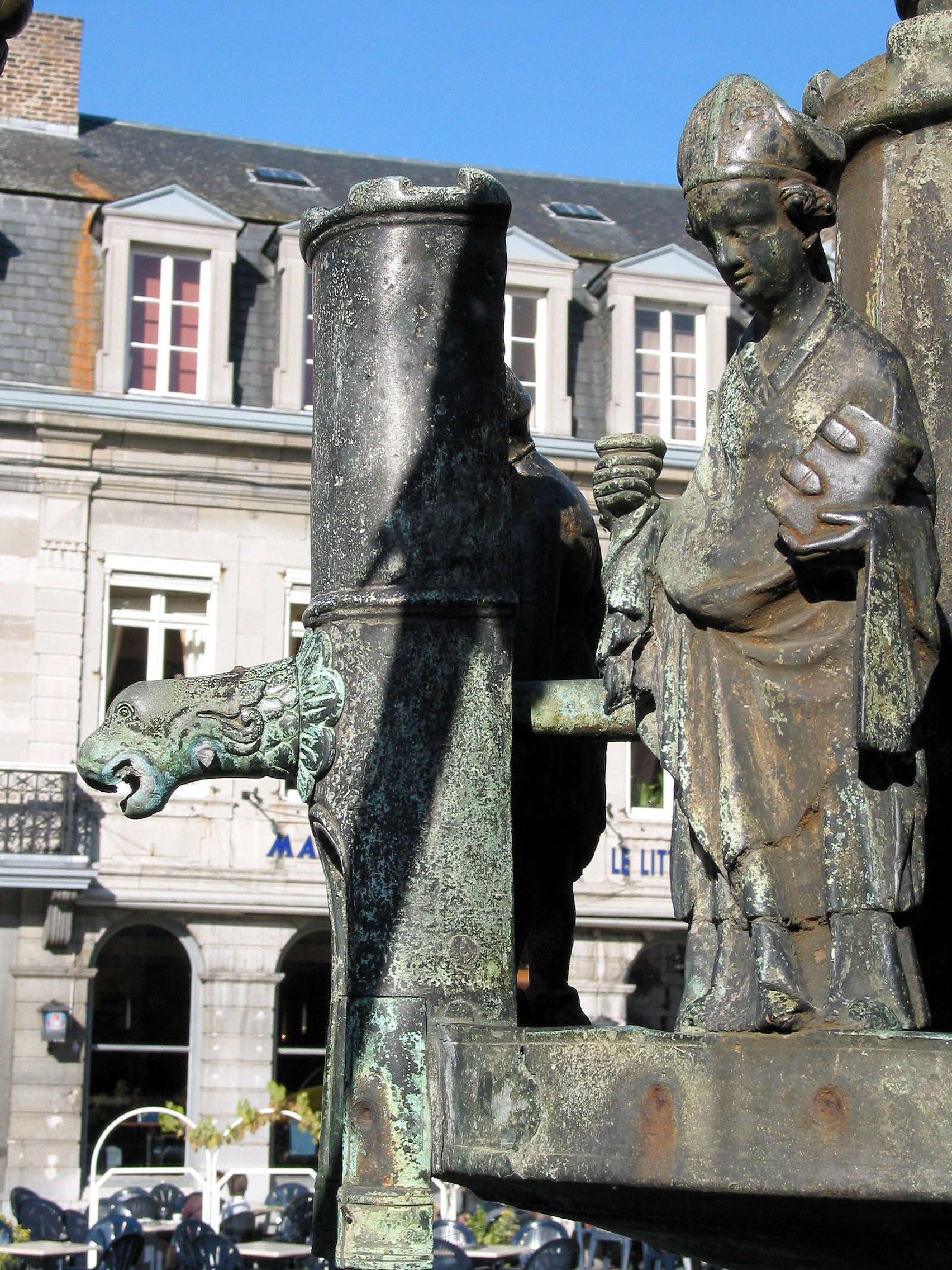 Huy (Belgium), small fine bronze of St. Domitian of Huy (1597) - upper part of the fountain "Li bassinia" (XV/XVIIIth centuries).